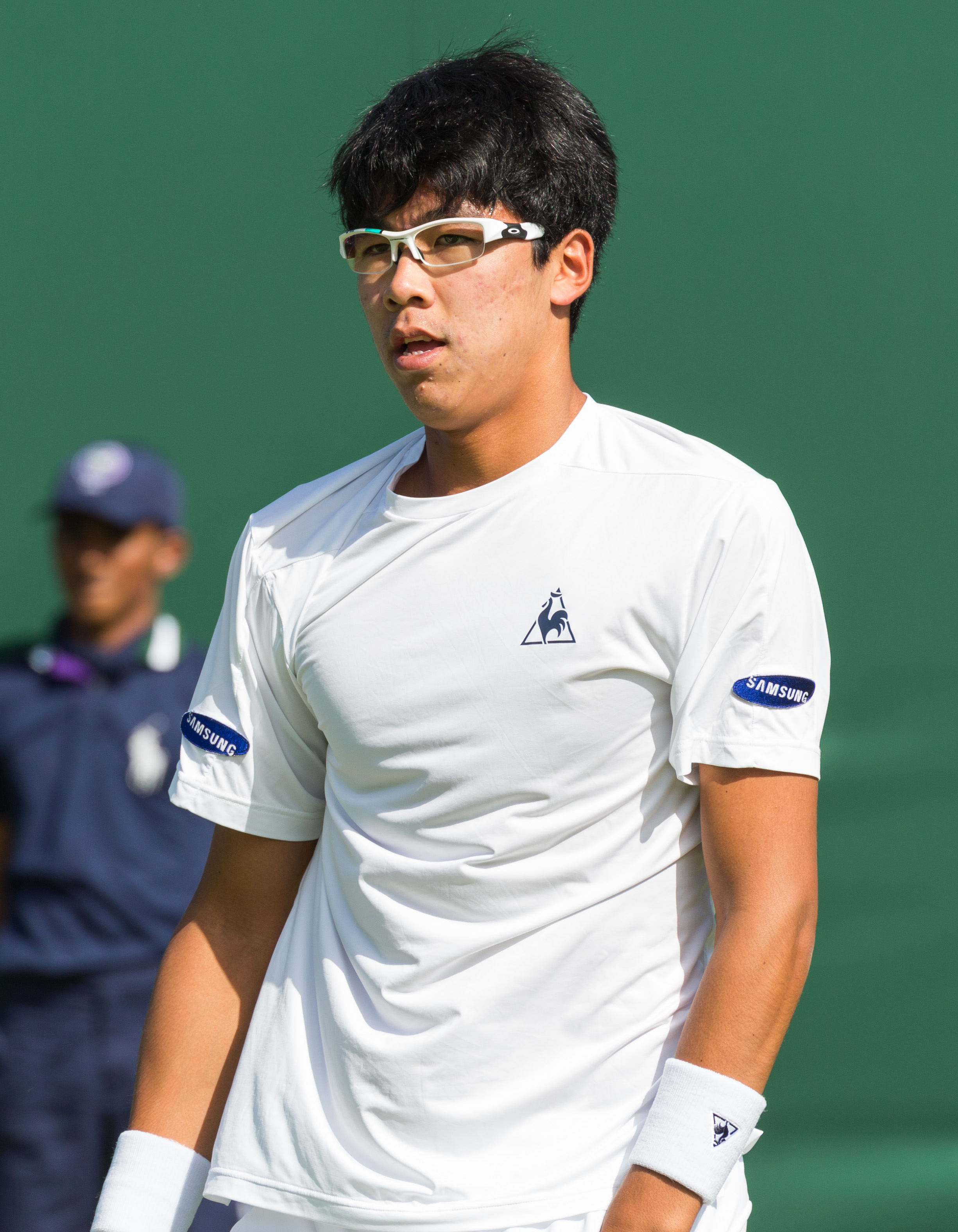 Hyeon Chung competing in the first round of the 2015 Wimbledon Championships.